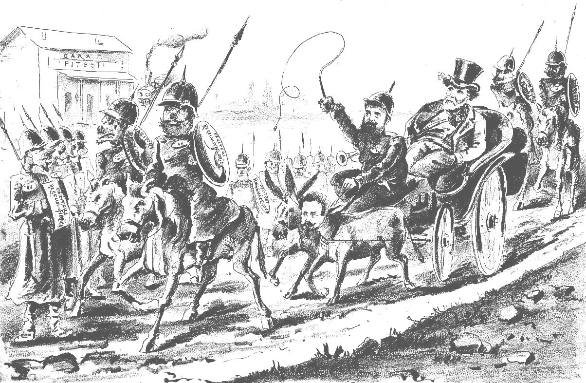 DE LA PITESCI LA FLORICA SI VICE-VERSA ("FROM PITE[Ş]TI TO FLORICA AND VICE VERSA"), cartoon poking fun at Ion Brătianu, the Premier of Romania. According to a poem published alongside the drawing, Brătianu had come to fear for his life, and spend as little time as possible outside secured buildings. Here, he is shown traveling, under heavy guard, between his estate of Florica (Ştefăneşti) and the nearby train station of Piteşti. Bobârnacul claimed that national police resources were wasted on the Premier's paranoid insecurity: police officials drive and pull his carriage; a Pickelhaube-wearing cortege bears shields inscribed Păzitori regelui de Florica ("Guards of the King of Florica").